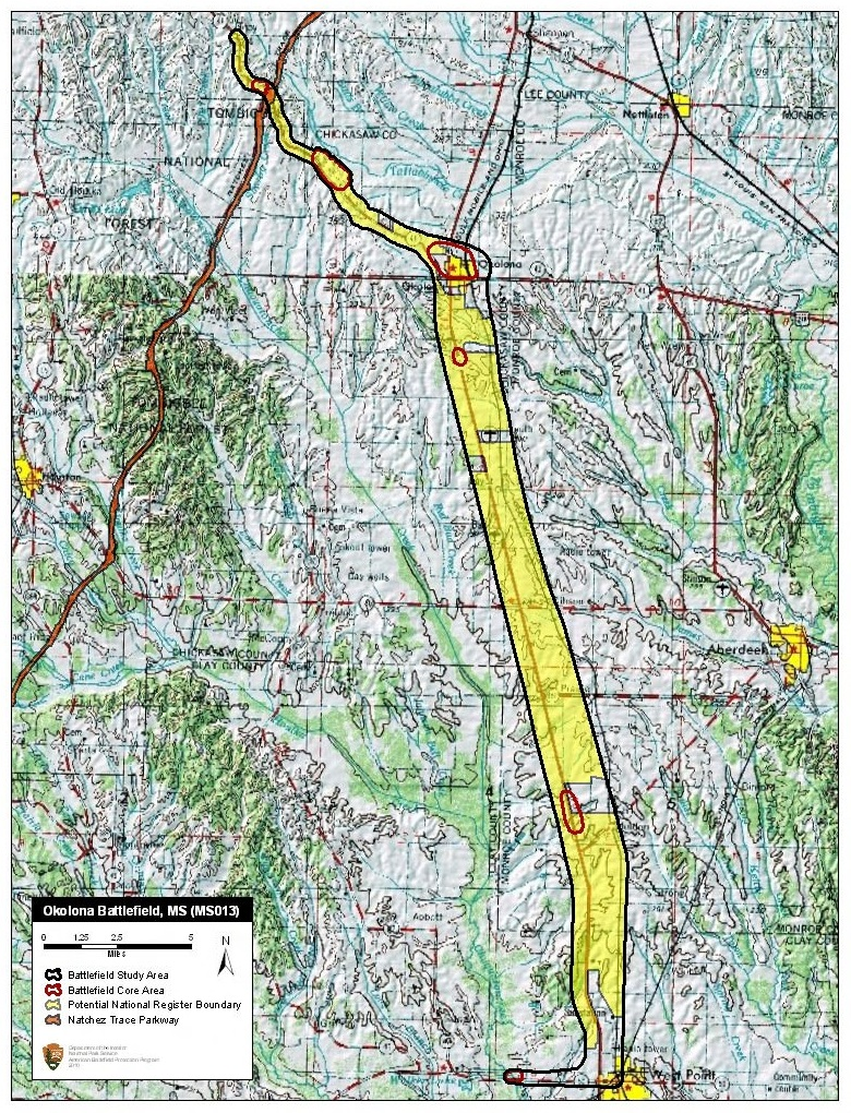 Map of battlefield core and study areas. The ABPP extended the Study Area of this cavalry battle to include the Federal running retreat route through Okolona, and heavy skirmishing in areas northwest of the city and between Okolona and West Point. The ABPP repositioned the Study Area along Pontotoc Road in the northwest, and widened the boundary around Okolona to include maneuvers made by Confederate and Federal troops in preparation for the Confederate attack on Federal forces west of town. The ABPP added a new Core Area at the end of the US withdrawal route to the northwest to represent the day’s last engagement, while the existing Core Area in the north was enlarged to include the full extent of fighting around Ivey’s Hill. The Core Area around Okolona was redrawn to more accurately represent documented locations of battle. Two Core Areas were added south of Okolona along the US route of retreat. While heavy skirmishing occurred all along the retreat route, these two new Core Areas represent locations where opposing forces formed in line of battle and fought. An additional Core Area was added west of West Point around Ellis Bridge to represent the opening fight that began the Federal retreat towards Okolona.